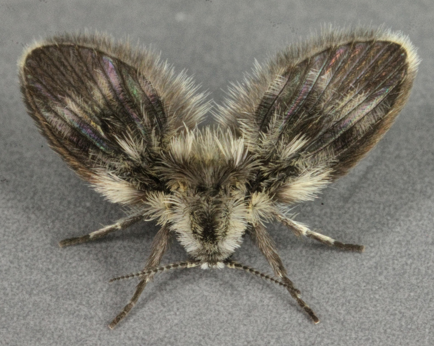 Ulomyia fuliginosa, Bala lakeshore, North Wales, June 2014